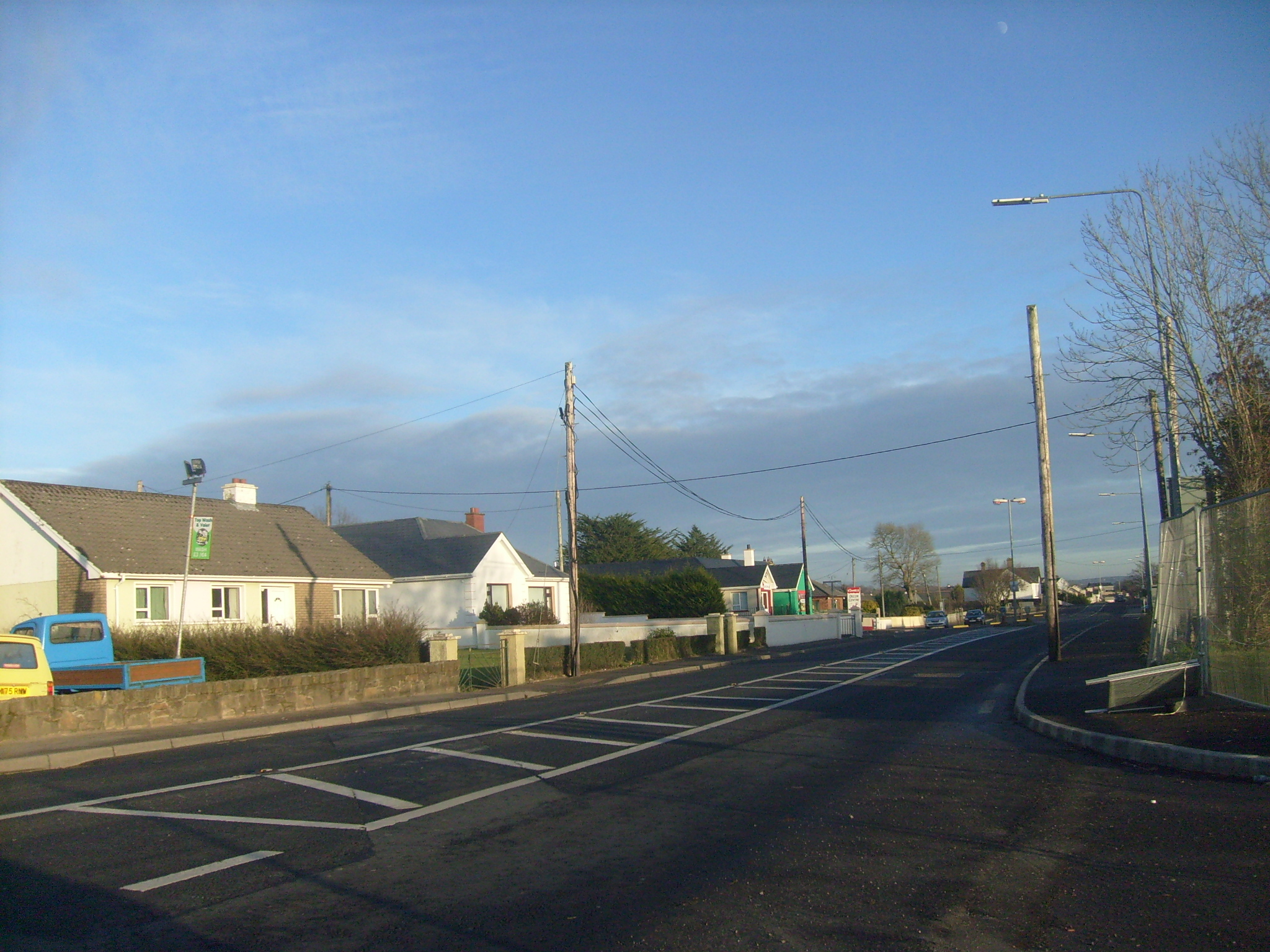 Killea, Co. Donegal, IrelandGaeilge: Cill Fhéich, Co. Dhún na nGall, Éire